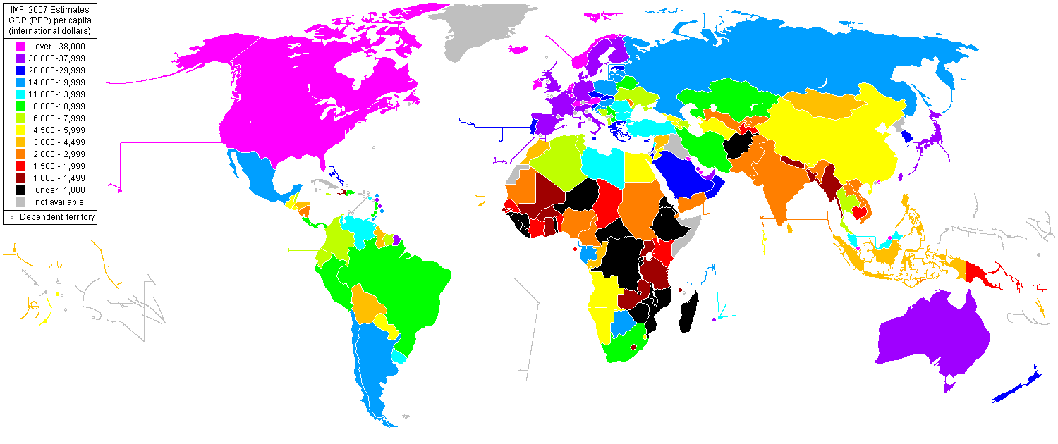 World map showing 2007 estimates about GDP (PPP) per capita (international dollars) over 38,000 30,000-37,999 20,000-29,999 14,000-19,999 11,000-13,999 8,000-10,999 6,000-7,999 4,500-5,999 3,000-4,499 2,000-2,999 1,500-1,999 1,000-1,499 under 1,000 not available